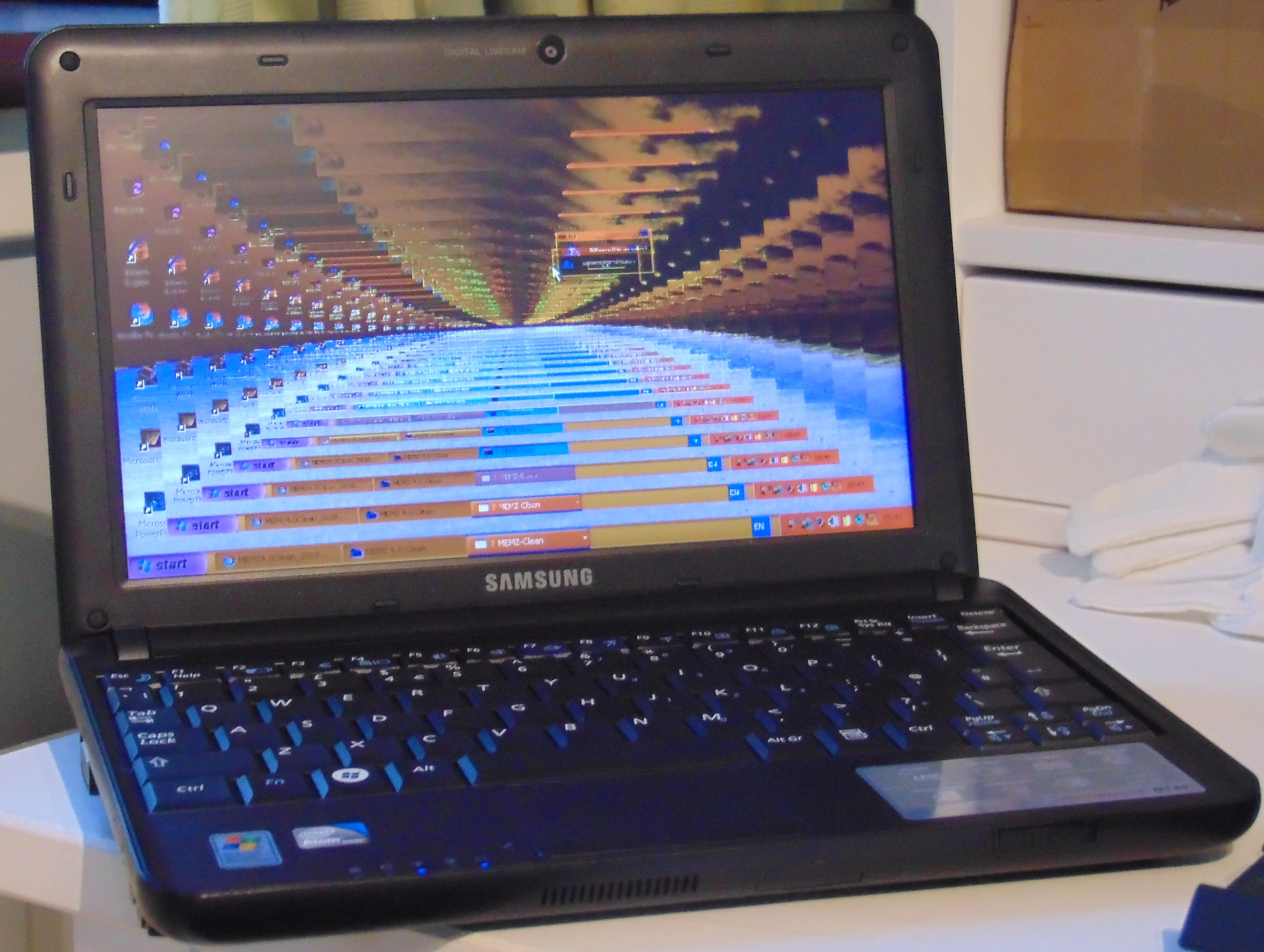 The MEMZ Trojan running on a Samsung N130 with Windows XP installed. One of the program's main payloads, a 'screen tunnelling' effect reminiscent of the Droste effect, is clearly visible.